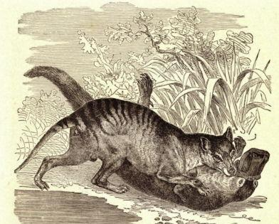 Thylacine attacking a platypus